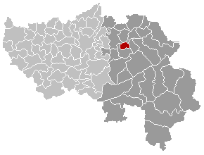 Map, municipality belgium Dison